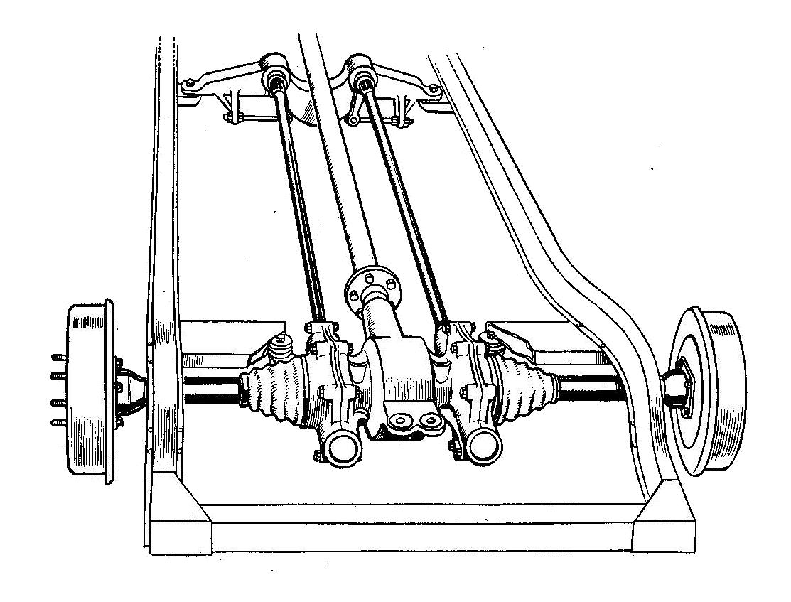 Mathis EMY6 torsion-bar rear suspension (Autocar Handbook, 13th ed, 1935).jpg